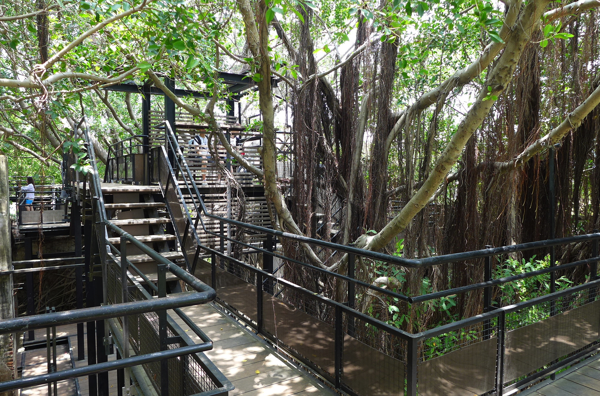 Anping Tree House